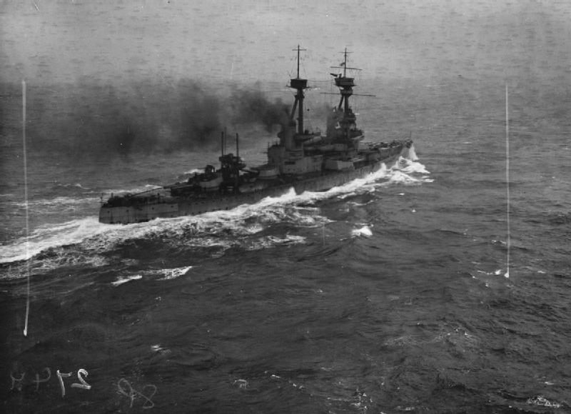 Aerial photograph of British battleship HMS Superb under way.